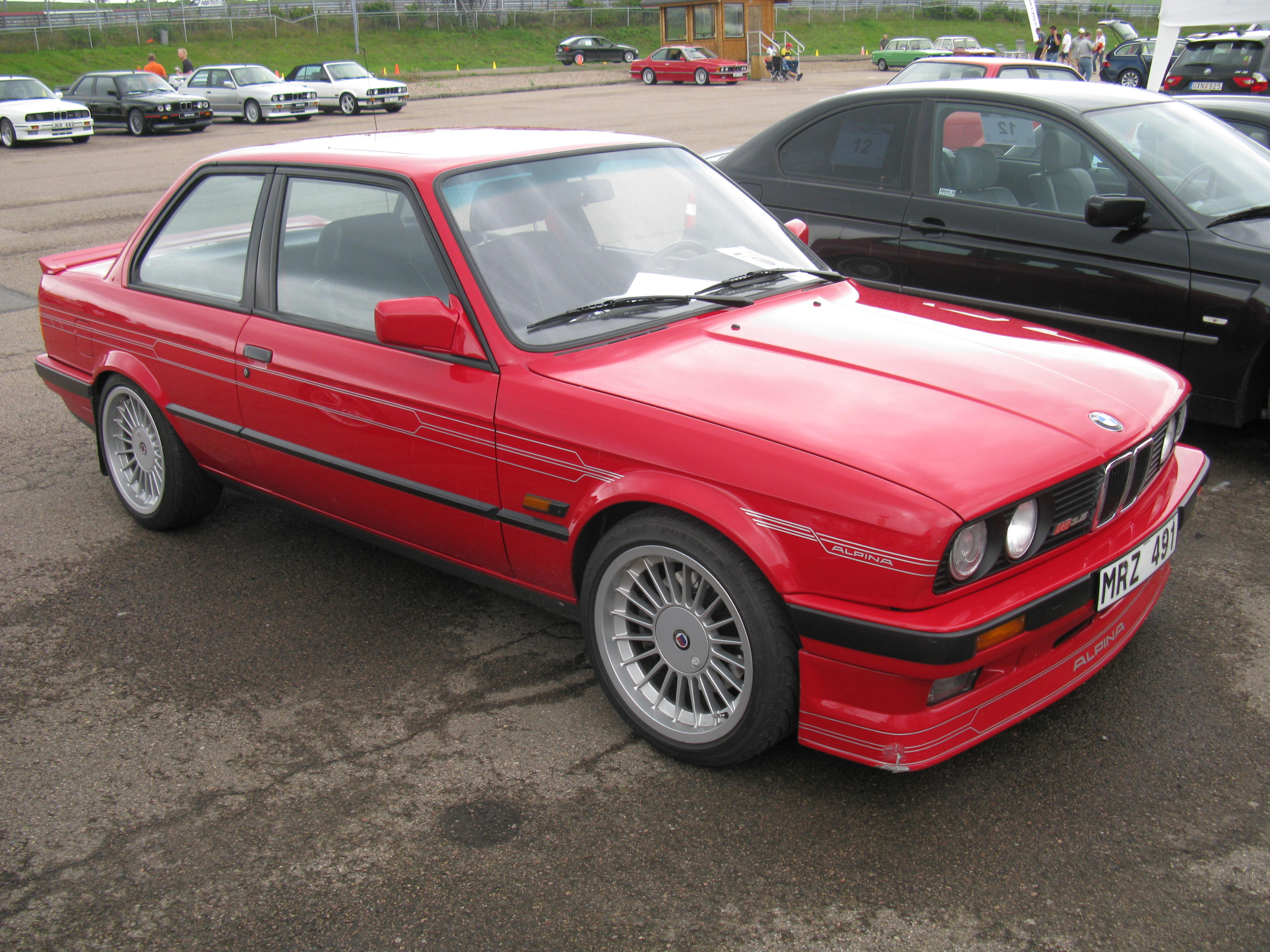 1989 BMW Alpina B6 3.5. Vehicle registration enquiry resultsJurisdictionSwedenRegistrationMRZ491Chassis codeB635008BA60172Engine code187kW (DIN), petrolCompliance date1989-02-10 (first date in traffic)Year of manufacture1989Weight1360 kg